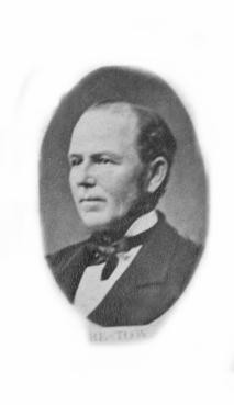 Samuel L. Bestow, Iowa legislator